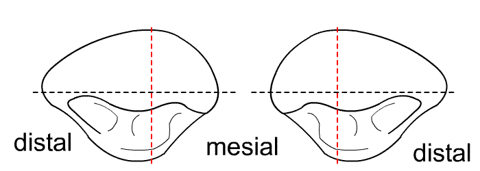 (tooth) curvature characteristic